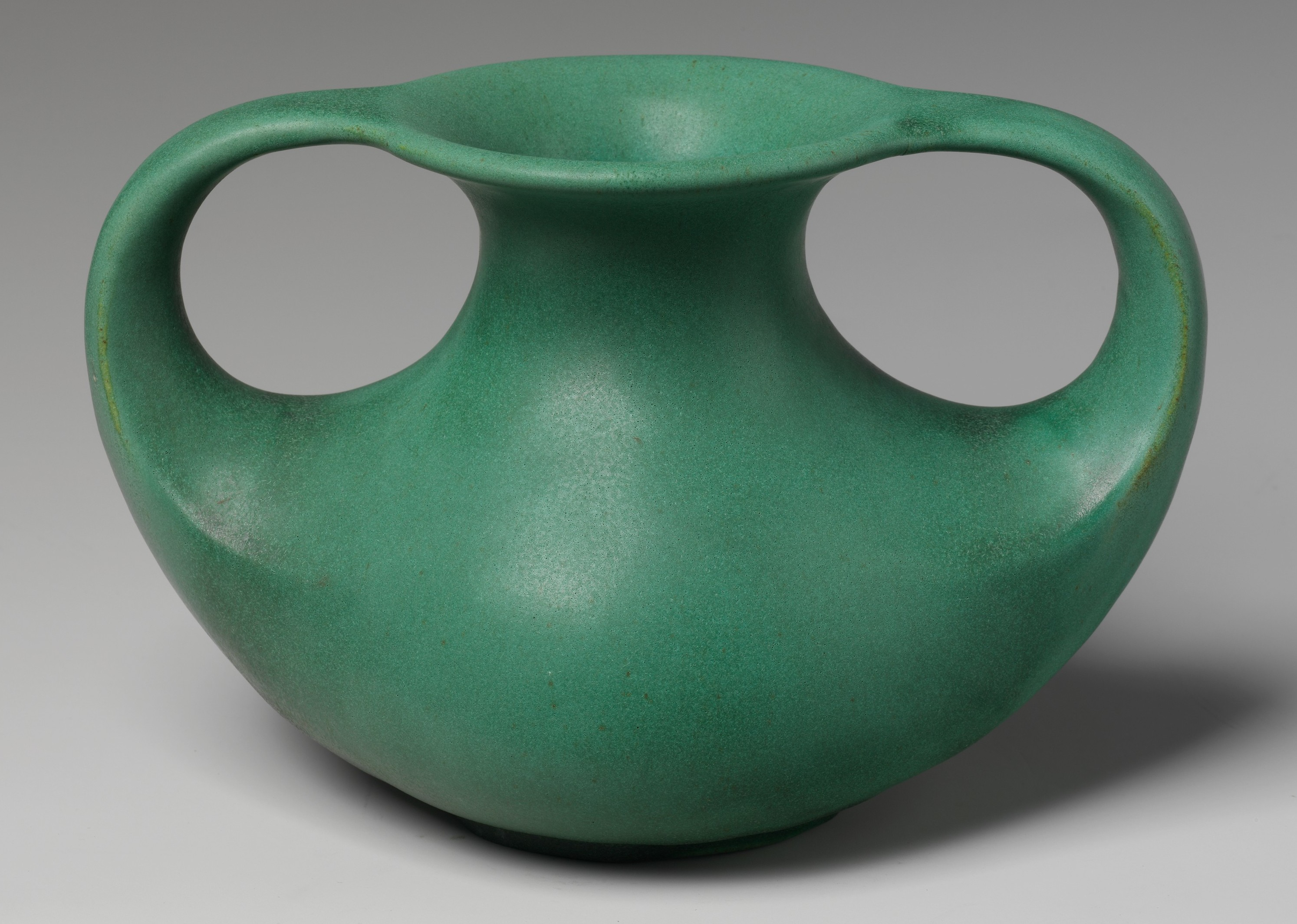 American; Vase; Ceramics